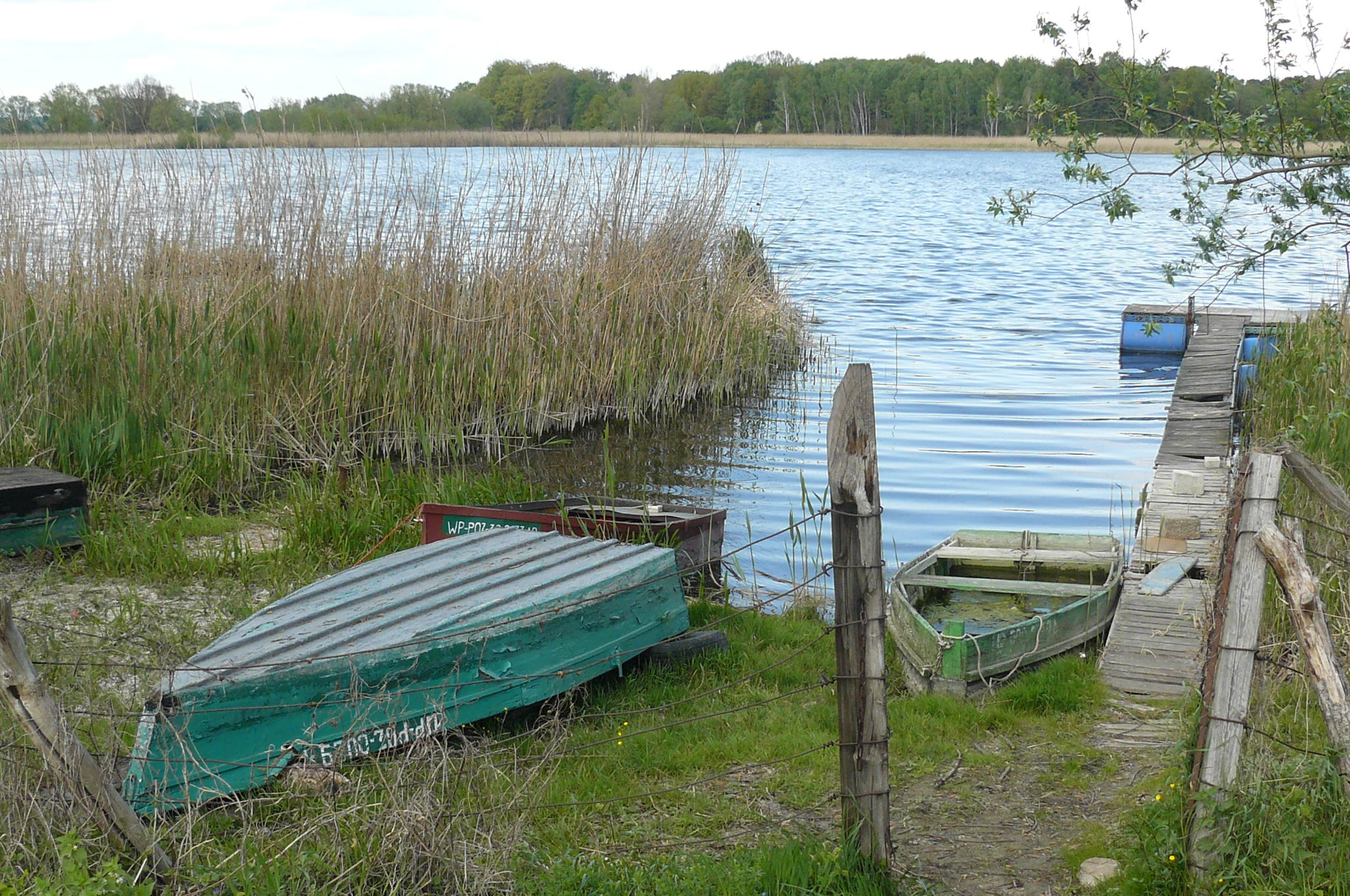 Kierskie Male Lake, PL.